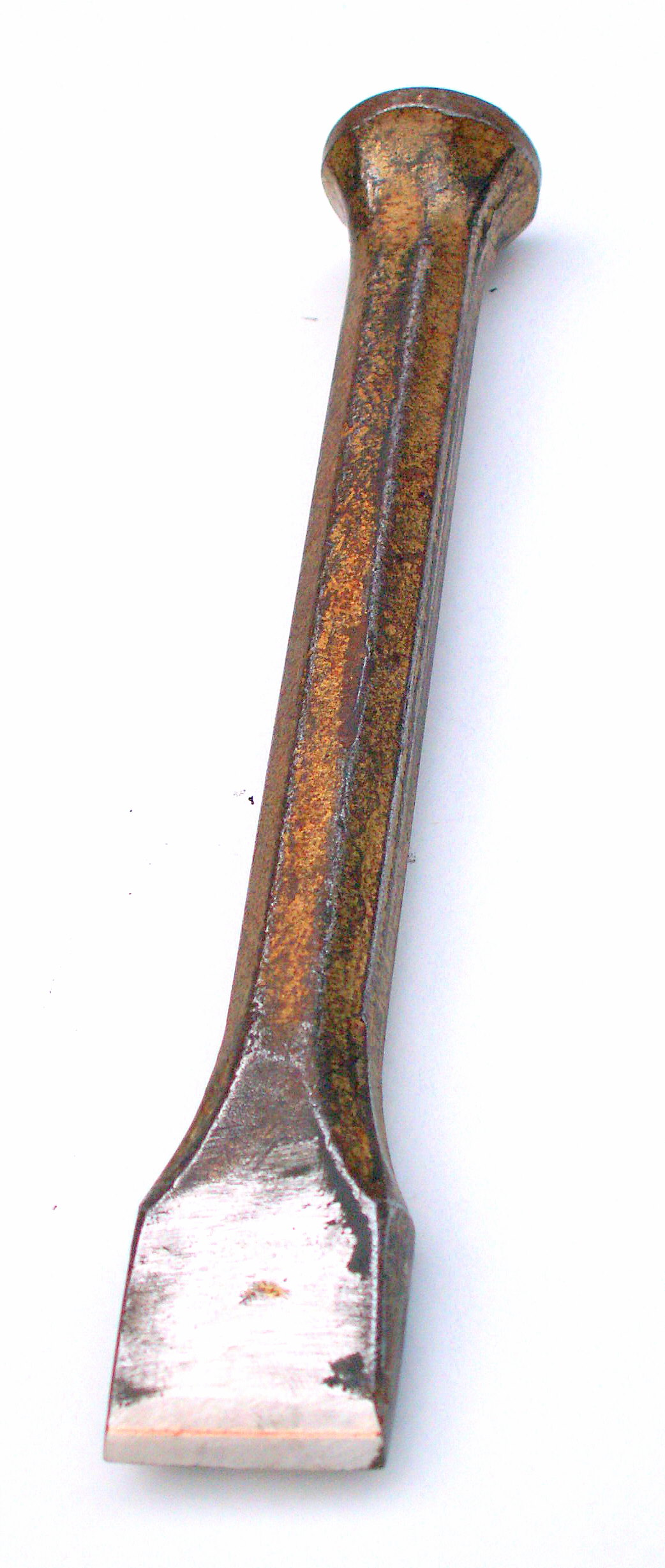 a stone chisel, with tungsten carbide carving edge, for use with a mallet